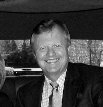 Jack Clemons at Lockheed Martin Air Traffic Control, Rockville, Maryland, April 4, 2005